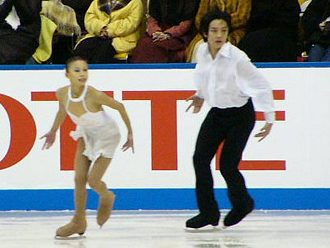 Ding Yang & Ren Zhongfei at the 2003 NHK Trophy.